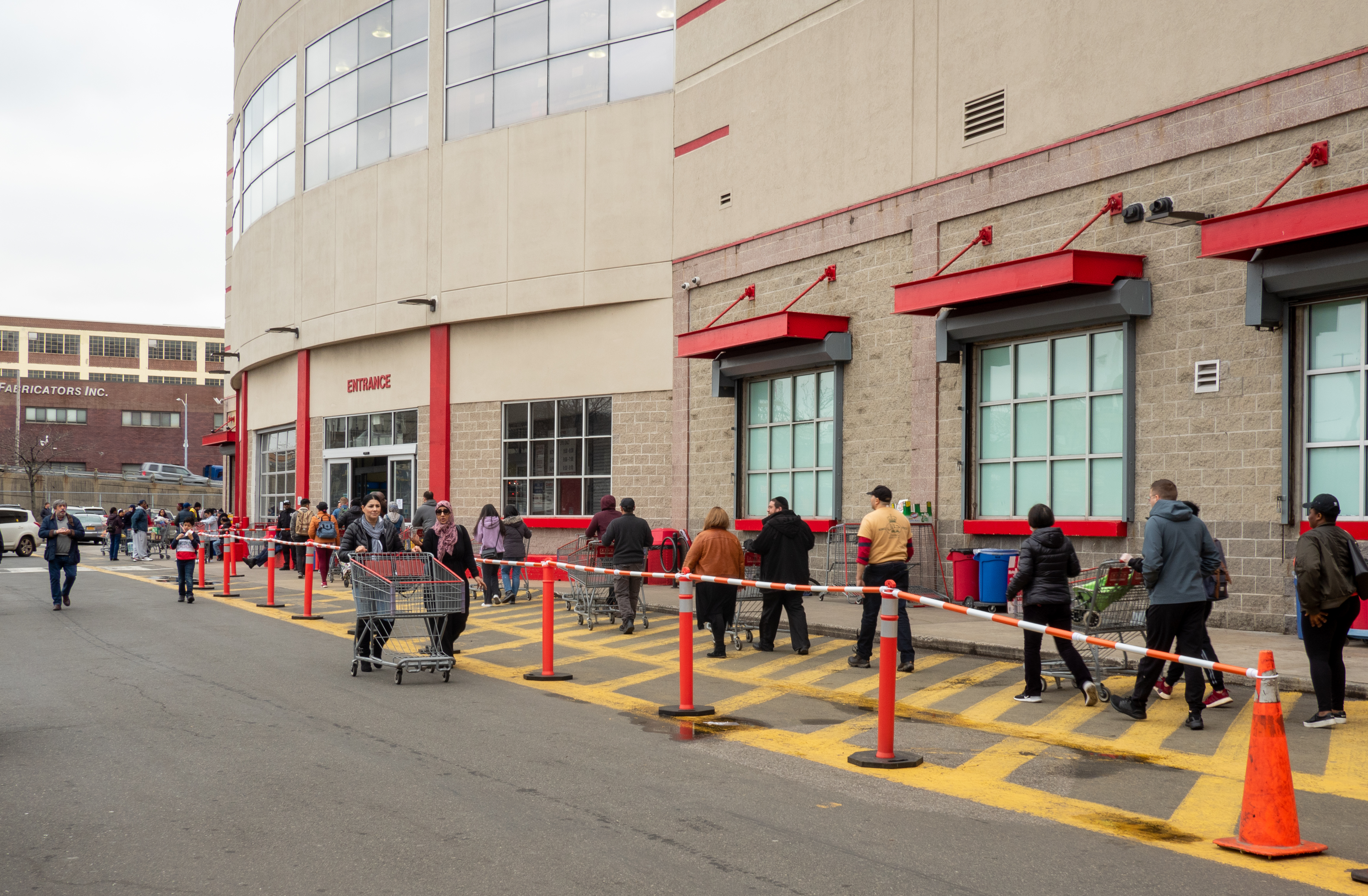 Line at Costco in Brooklyn during the coronavirus pandemic